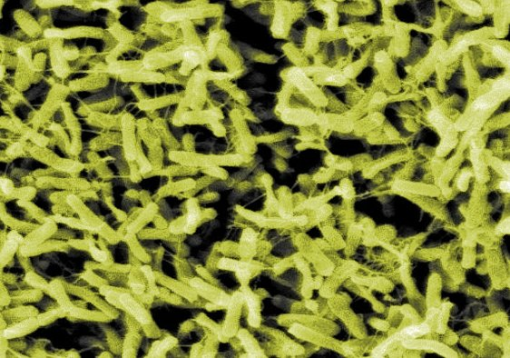 Clostridium difficile from a stool sample obtained using a 0.1 µm filter